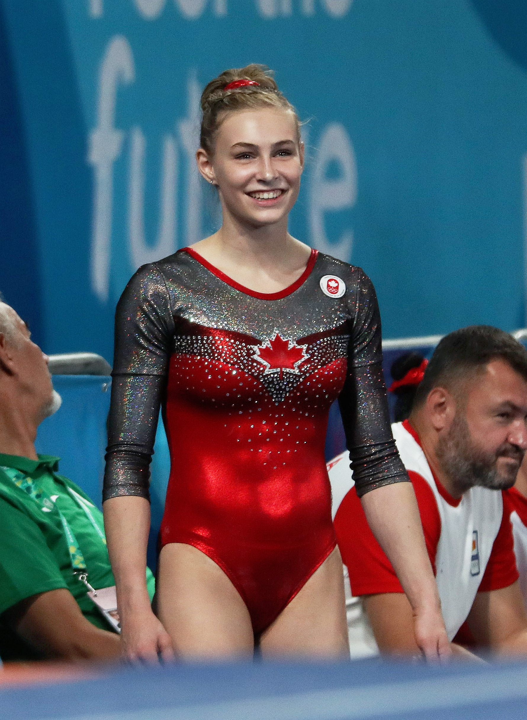 Vault qualification of the girls' artistic gymnastics at the 2018 Summer Youth Olympics in Buenos Aires on 8 October 2018. Depicted: Emma Spence.